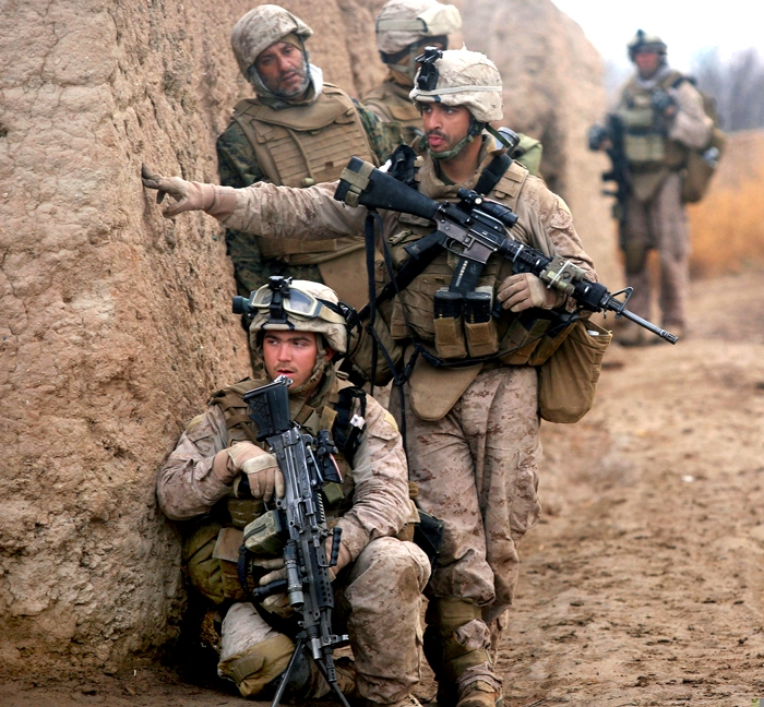 U.S. Marine Corps Lance Cpls. Daniel Garner (left) and Chris Ducharme, both with 3rd Platoon, India Company, 3rd Battalion, 6th Marine Regiment, investigate a possible improvised explosive device while on a patrol in Marjah, Helmand province, Afghanistan, on Feb. 22, 2010. Marines and Afghan National Army soldiers patrolled through a residential area of the city to carry out counterinsurgency operations as part of Operation Moshtarak.